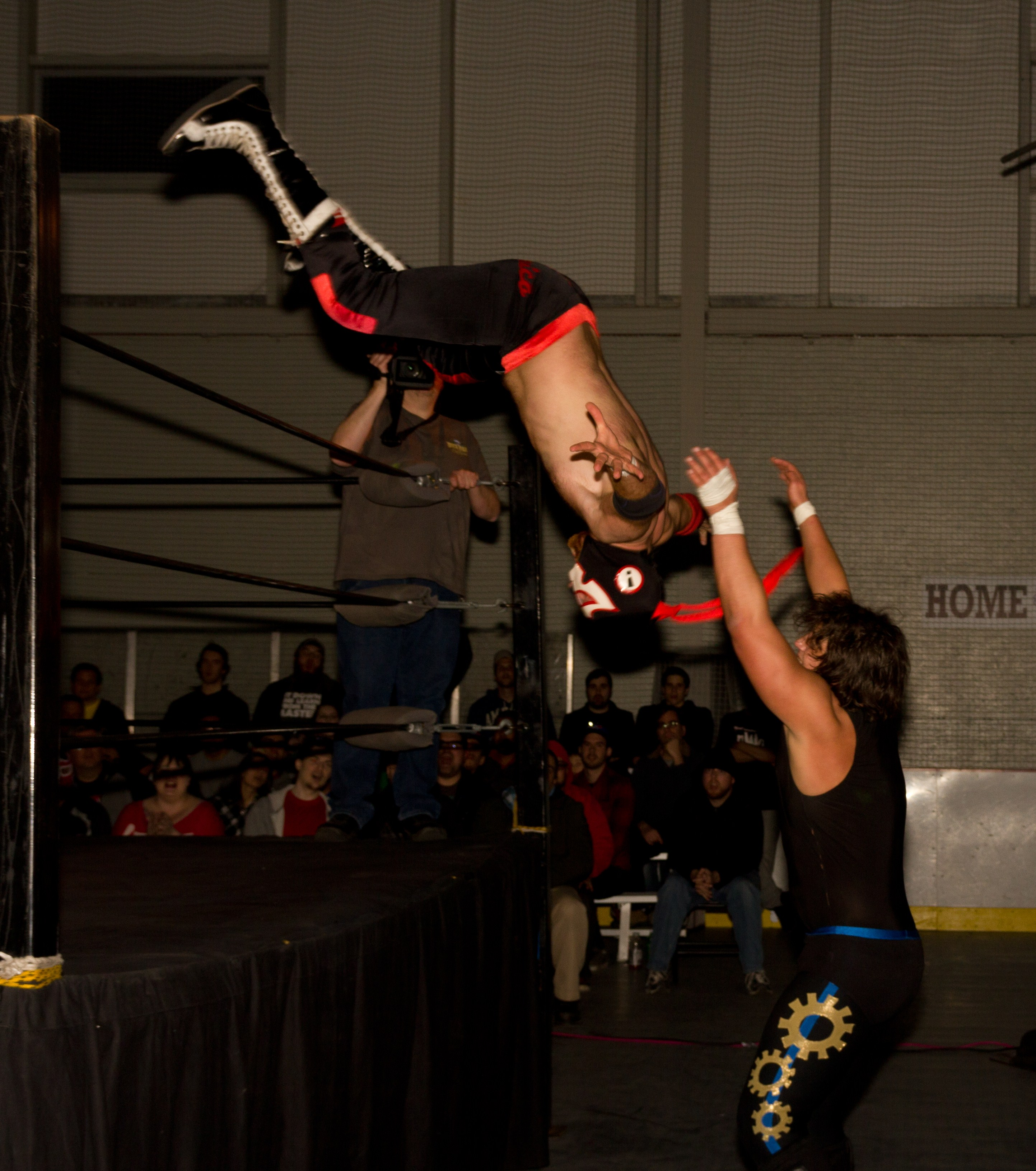 Wrestler El Generico (in red and black trunks) executing a somersault dive against Tim Donst at a joint Chikara/Squared Circle Wrestling show in Vaughan, ON